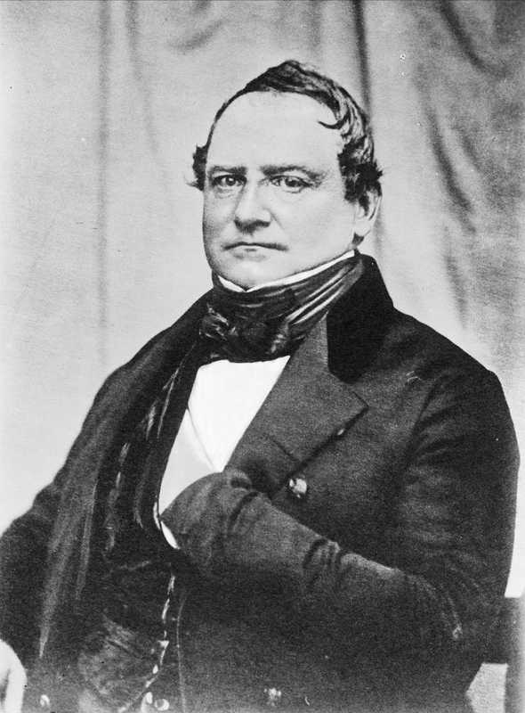 Norwegian bankier Hans Faye (1797–1852), photo from 1852.